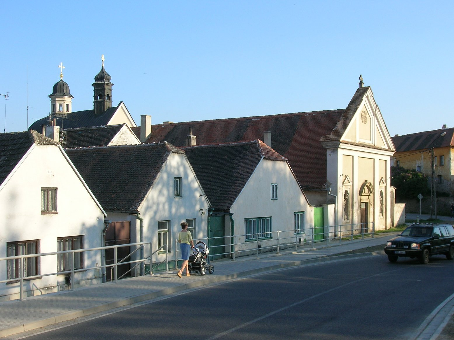 Jaroměřice nad Rokytnou. Hospital with the St. Catherine chapel